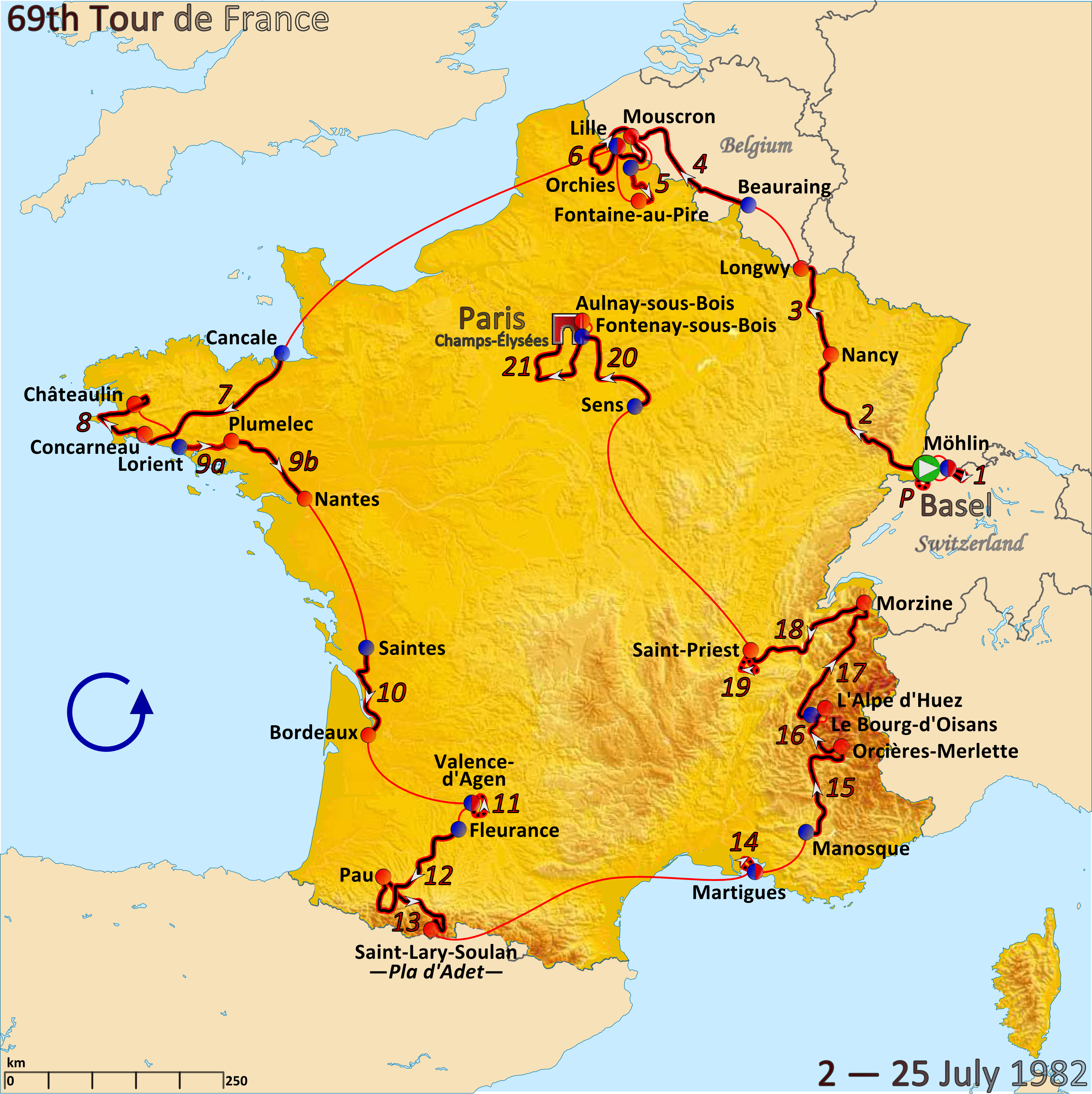 Map of the 1982 Tour de France created in Inkscape using accurate stage maps from touratlas.nl.